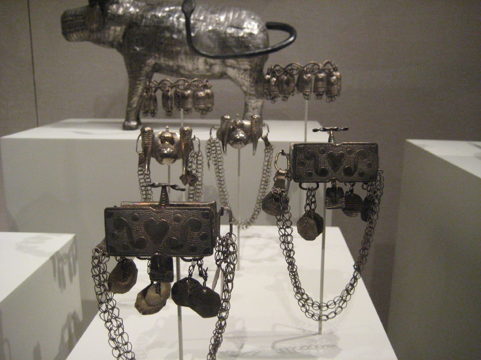 Republic of Benin, Fon peoples 19th - 20th century Silver alloy Item numbers: 1988.411.40, .41; 1989.387.18a,b; and 1988.411.76a,b